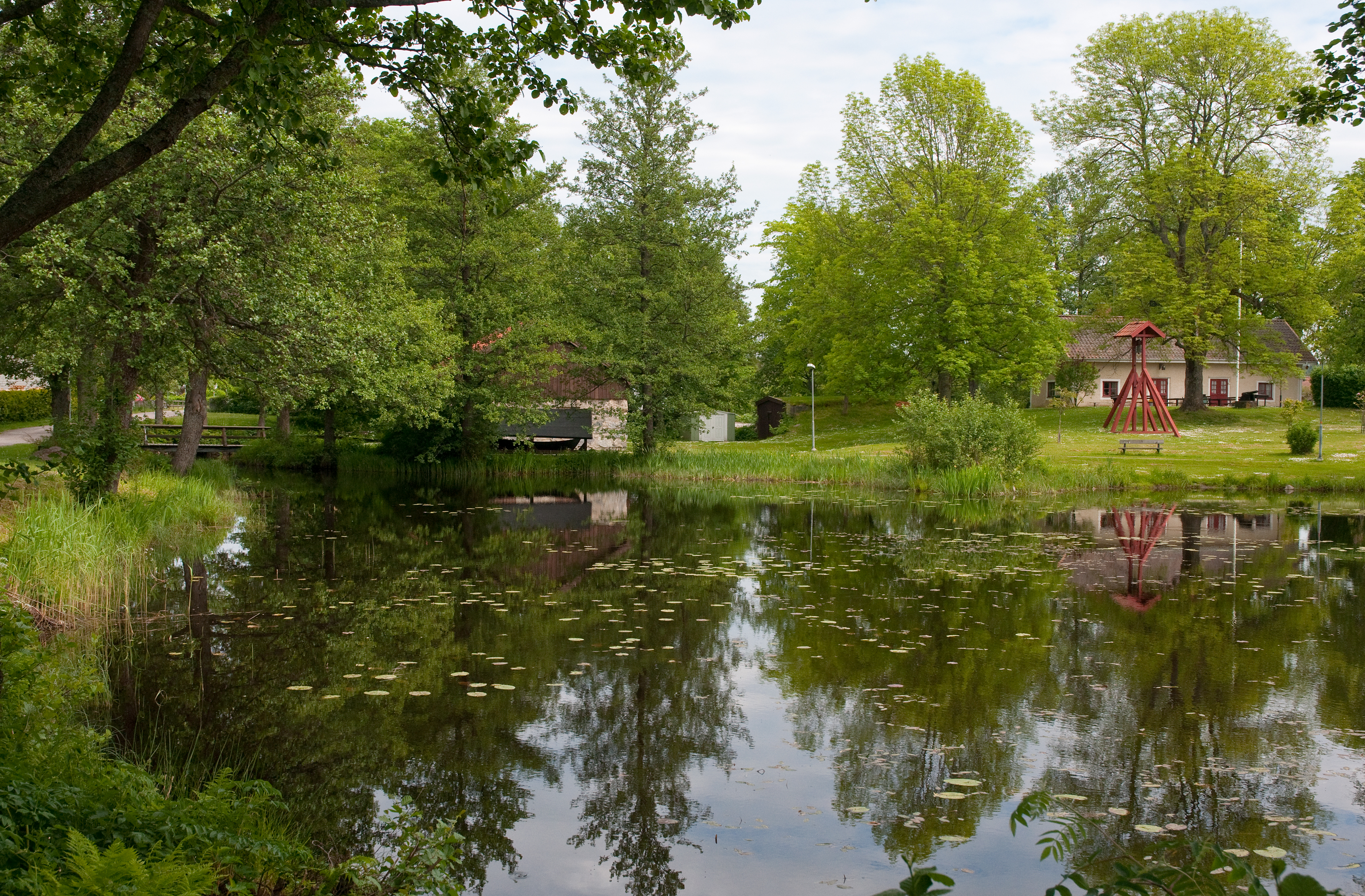 Näveån in Nävekvarn